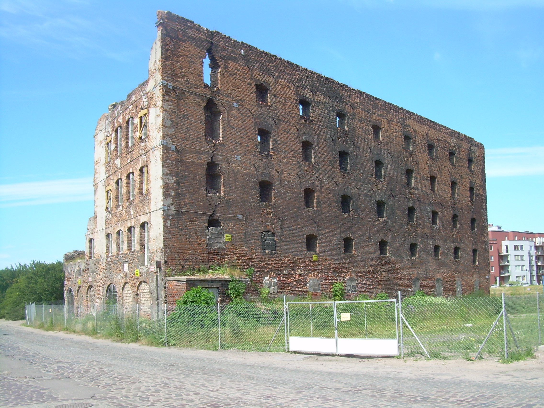 Granary Island in Gdańsk.